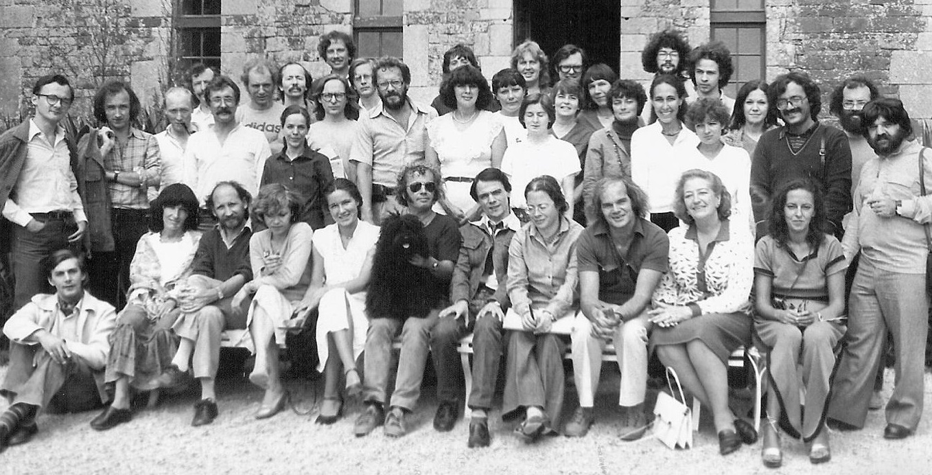 Literature